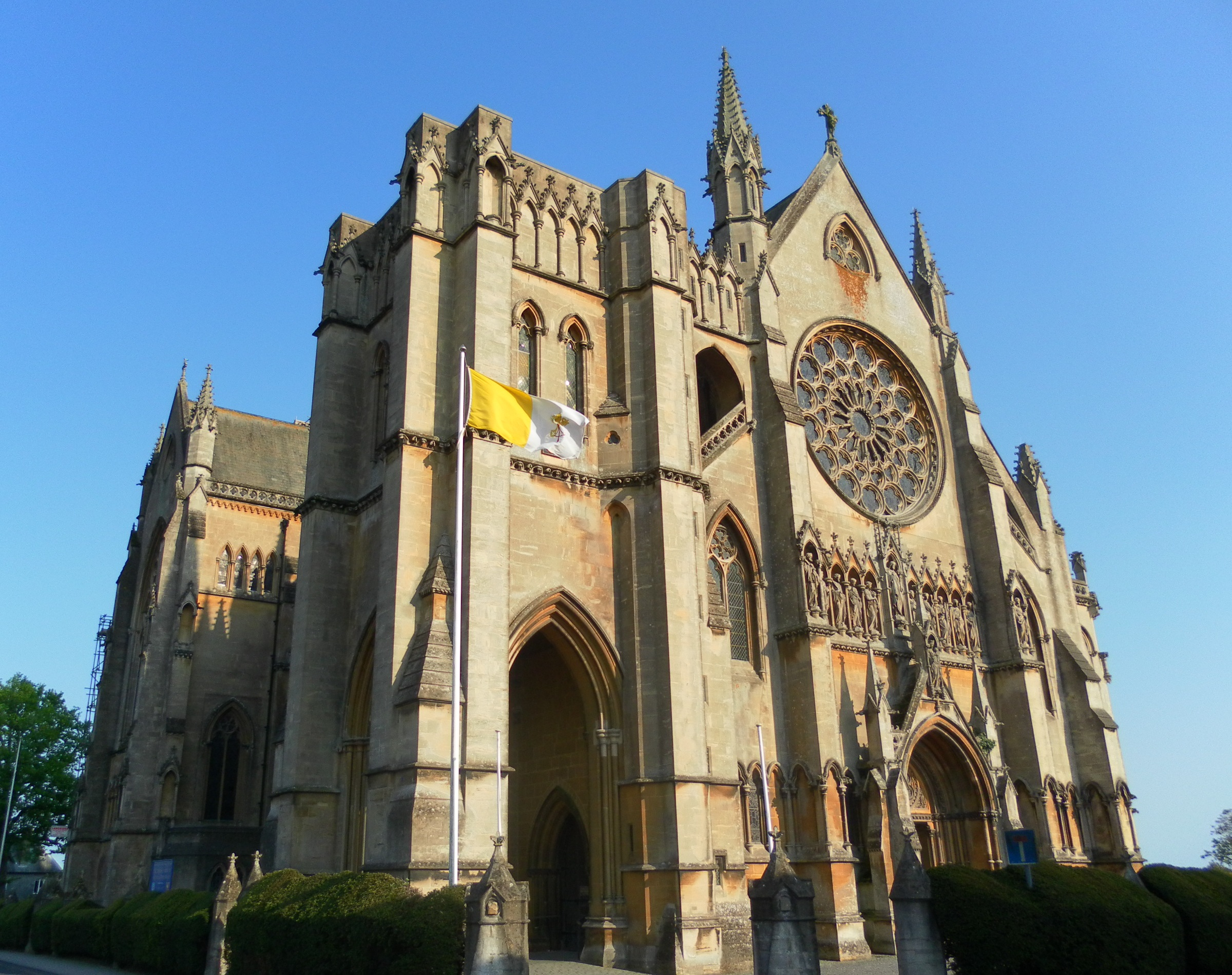 Cathedral of Our Lady and St Philip Howard, Arundel, Arun District, West Sussex, England. The Roman Catholic cathedral of the Diocese of Arundel and Brighton. Listed at Grade I by English Heritage (NHLE Code 1248090)